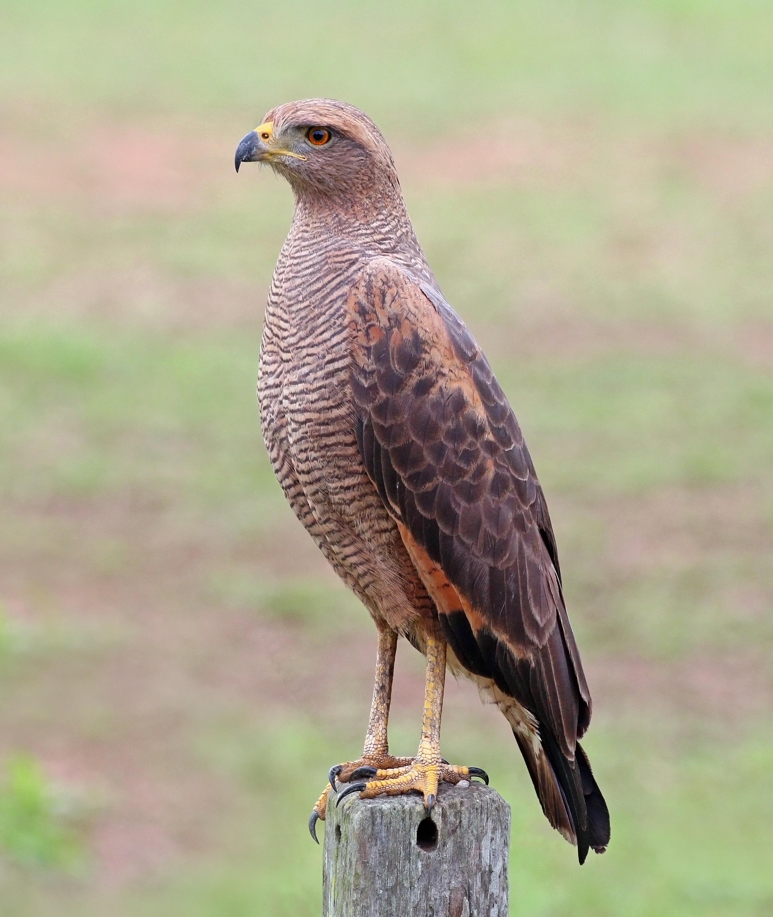 Savanna hawk (Buteogallus meridionalis), the Pantanal, Brazil